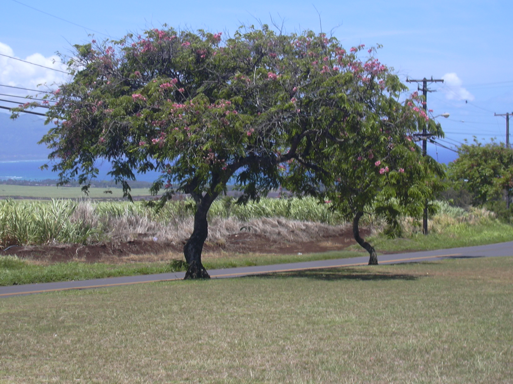 Cassia javanica (habit). Location: Maui, Baldwin Ave